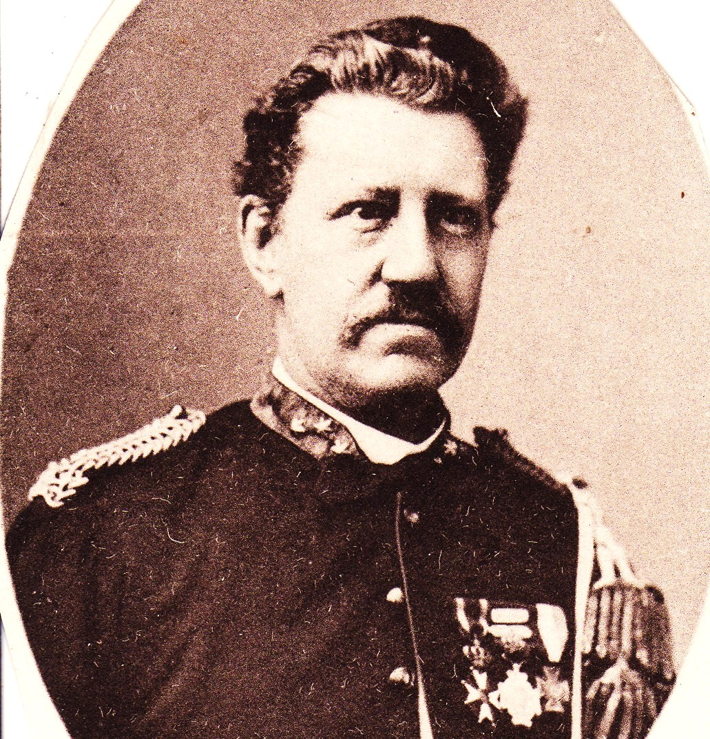 Eerste luitenant der infanterie L.G. Diepenheim